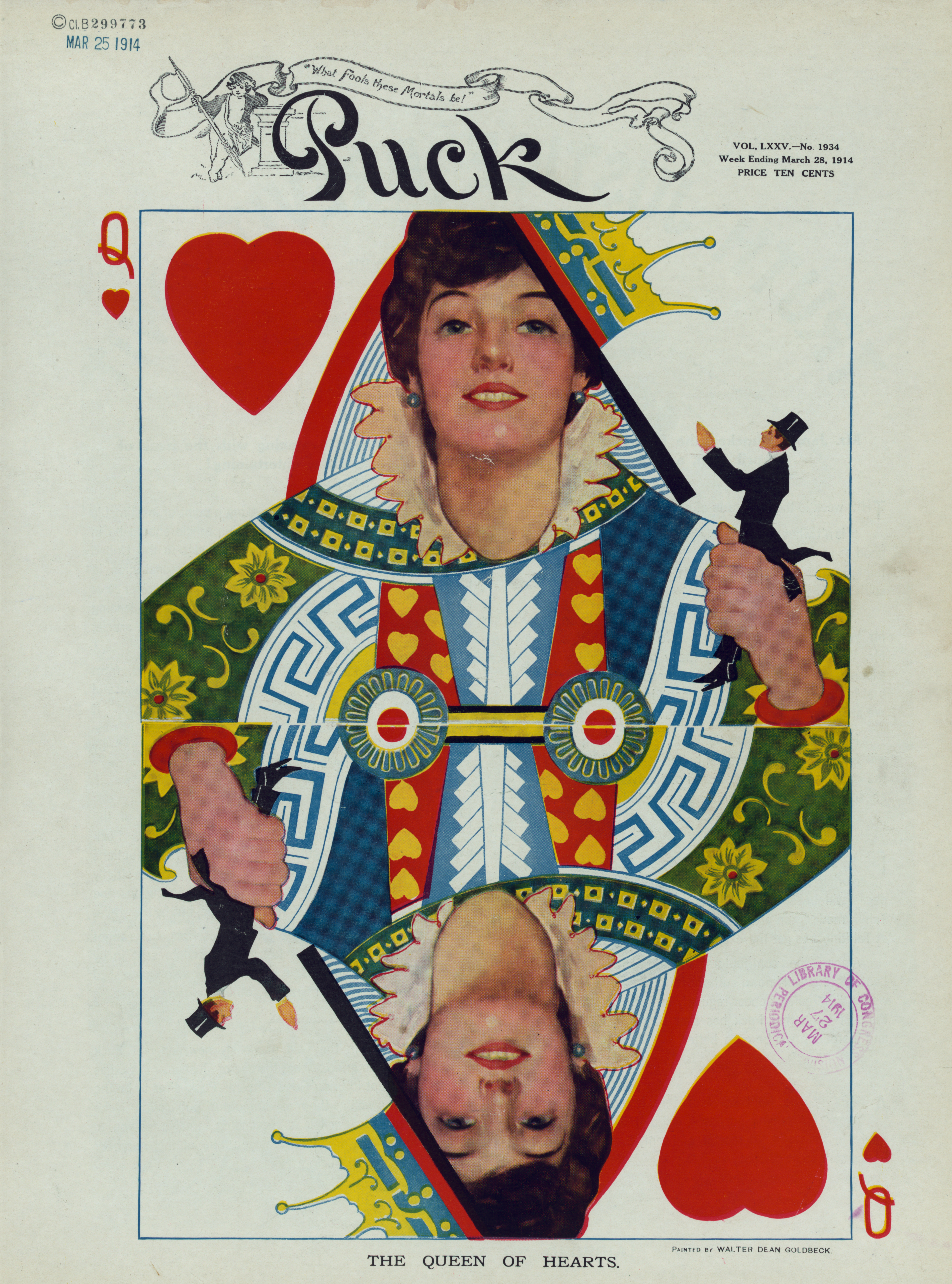 Evelyn Nesbit's face as "The Queen of Hearts" on playing card. Puck weekly magazine, March 25, 1914.